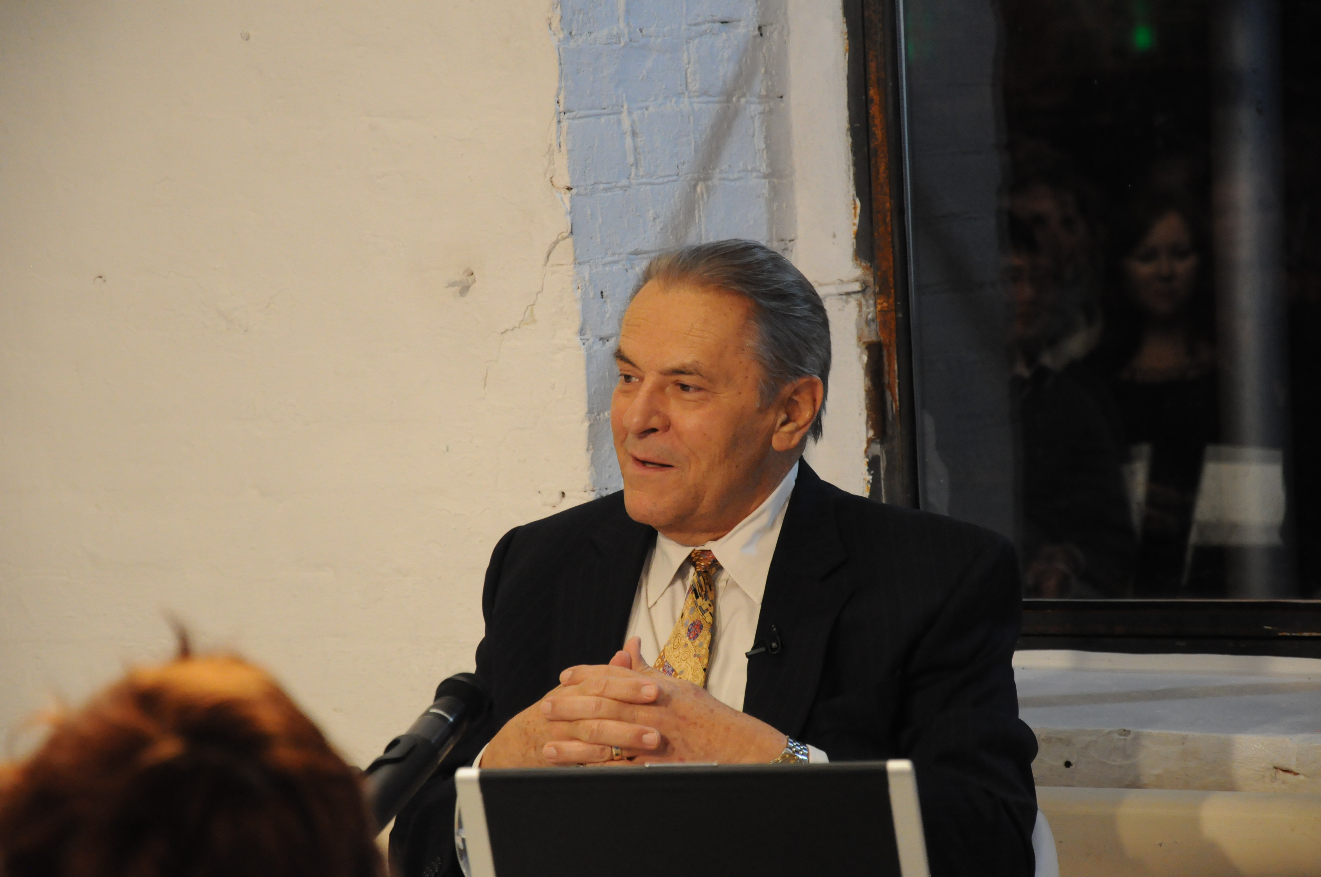 Stanislav Grof, psychologist and psychiatrist